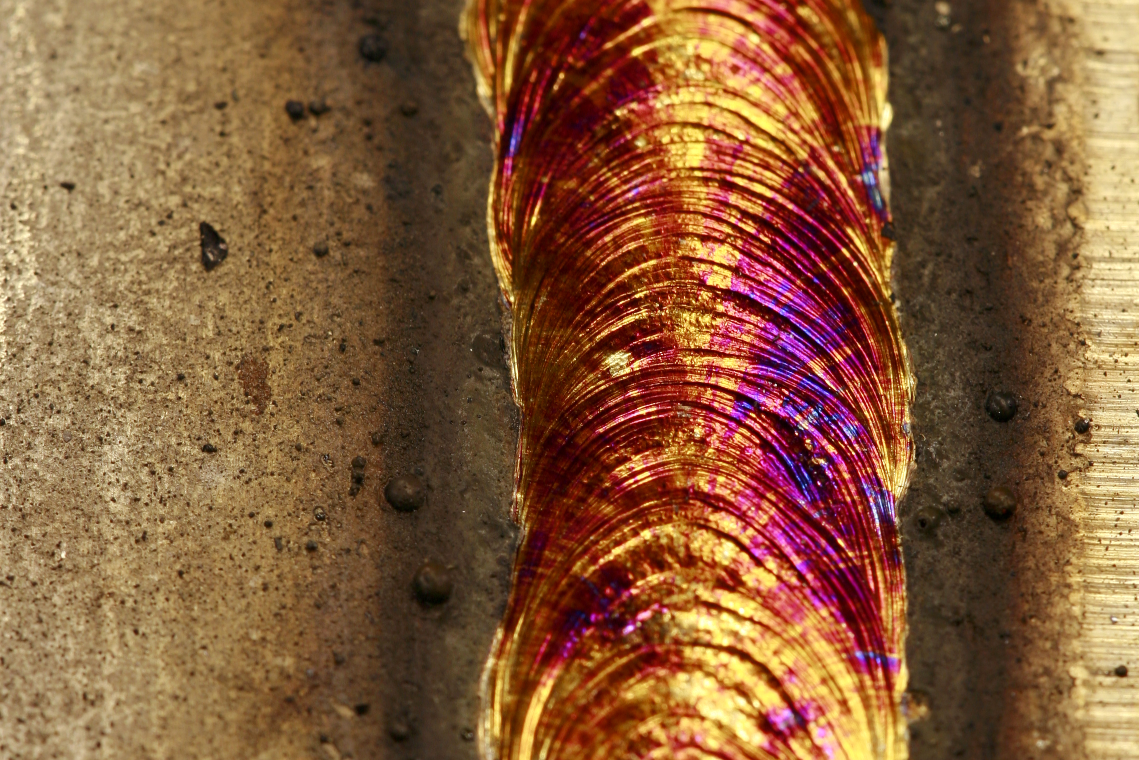 AISI 316 L stainless steel weld bead. DC MMA welding.